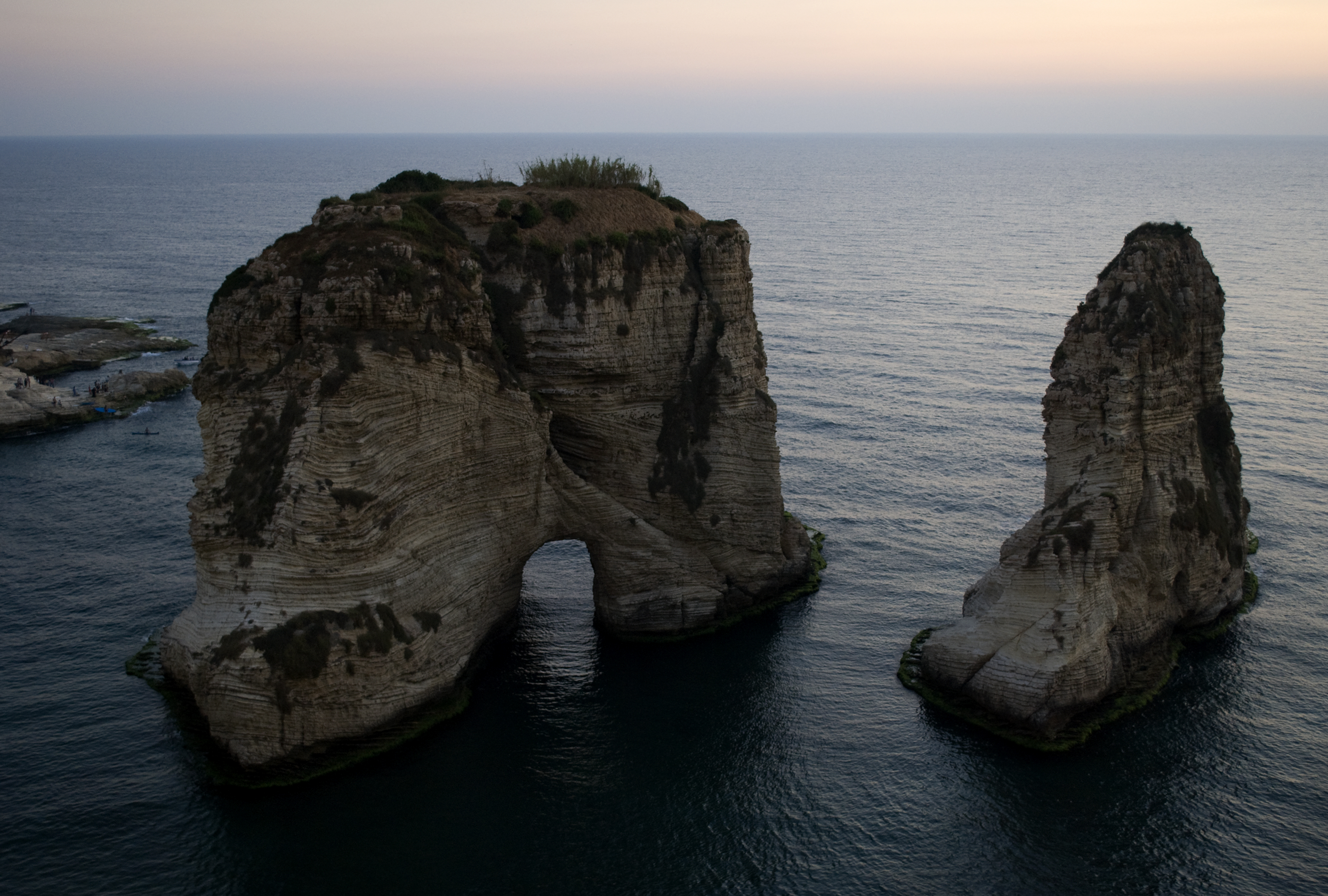 Pigeon's Rock at sunset. Beirut, Lebanon.